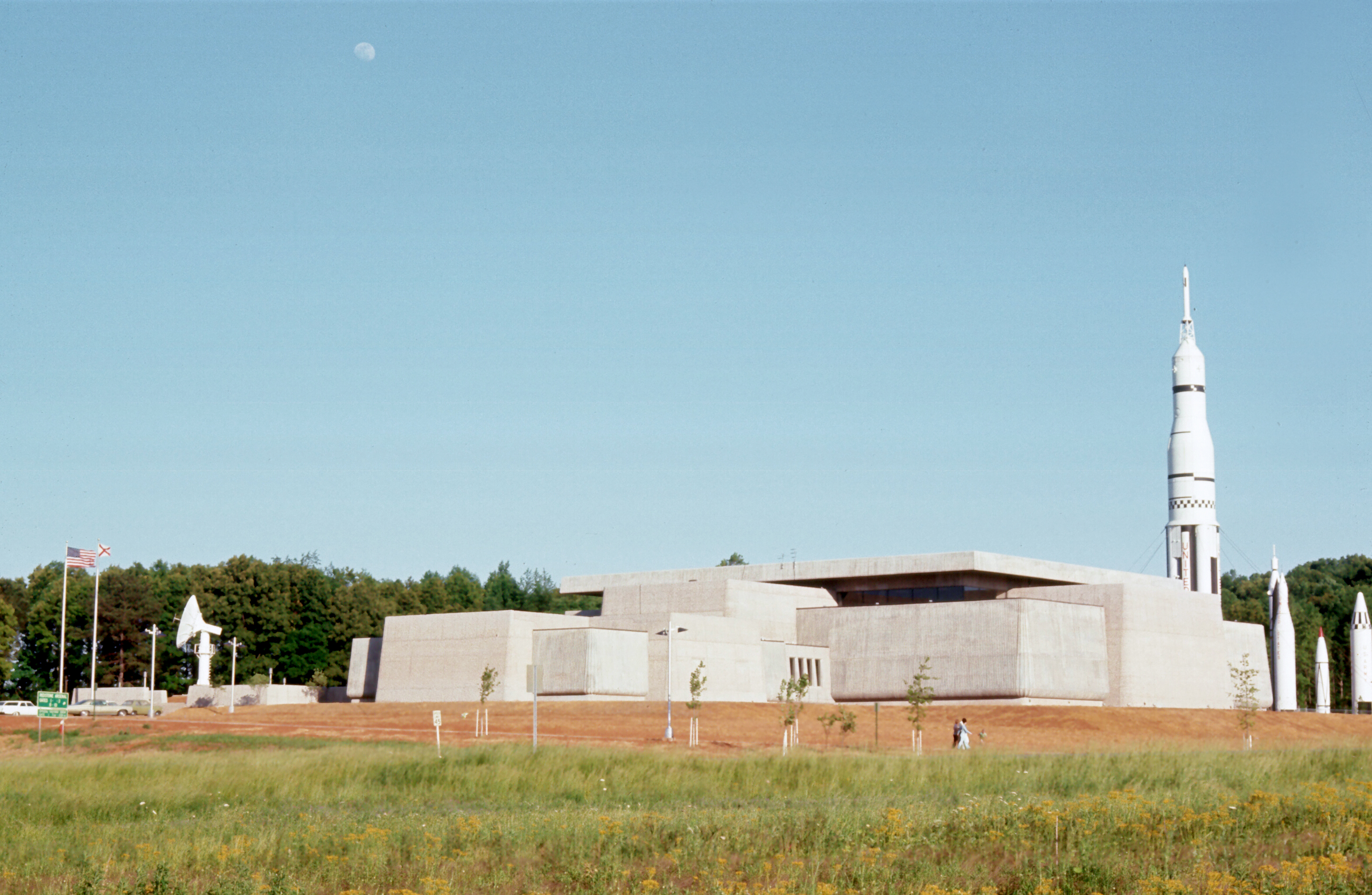 This is how the museum looked when it opened in March, 1970. Date is approximate.